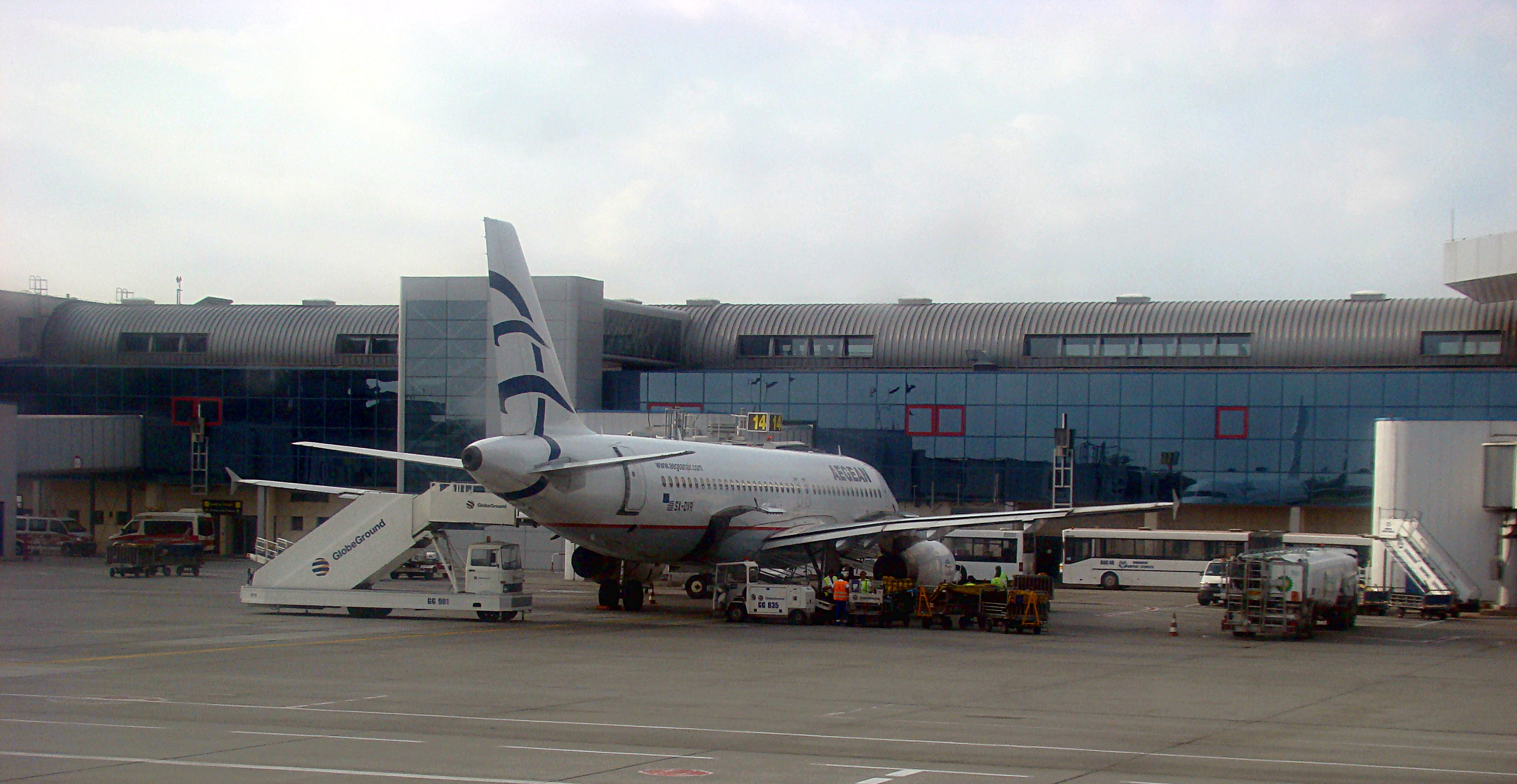 Aegean Airlines Airbus at Henri Coandă Bucharest Airport